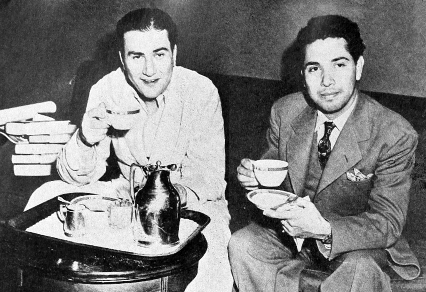 Photograph of bandleader Artie Shaw and songwriter Alberto Dominguez